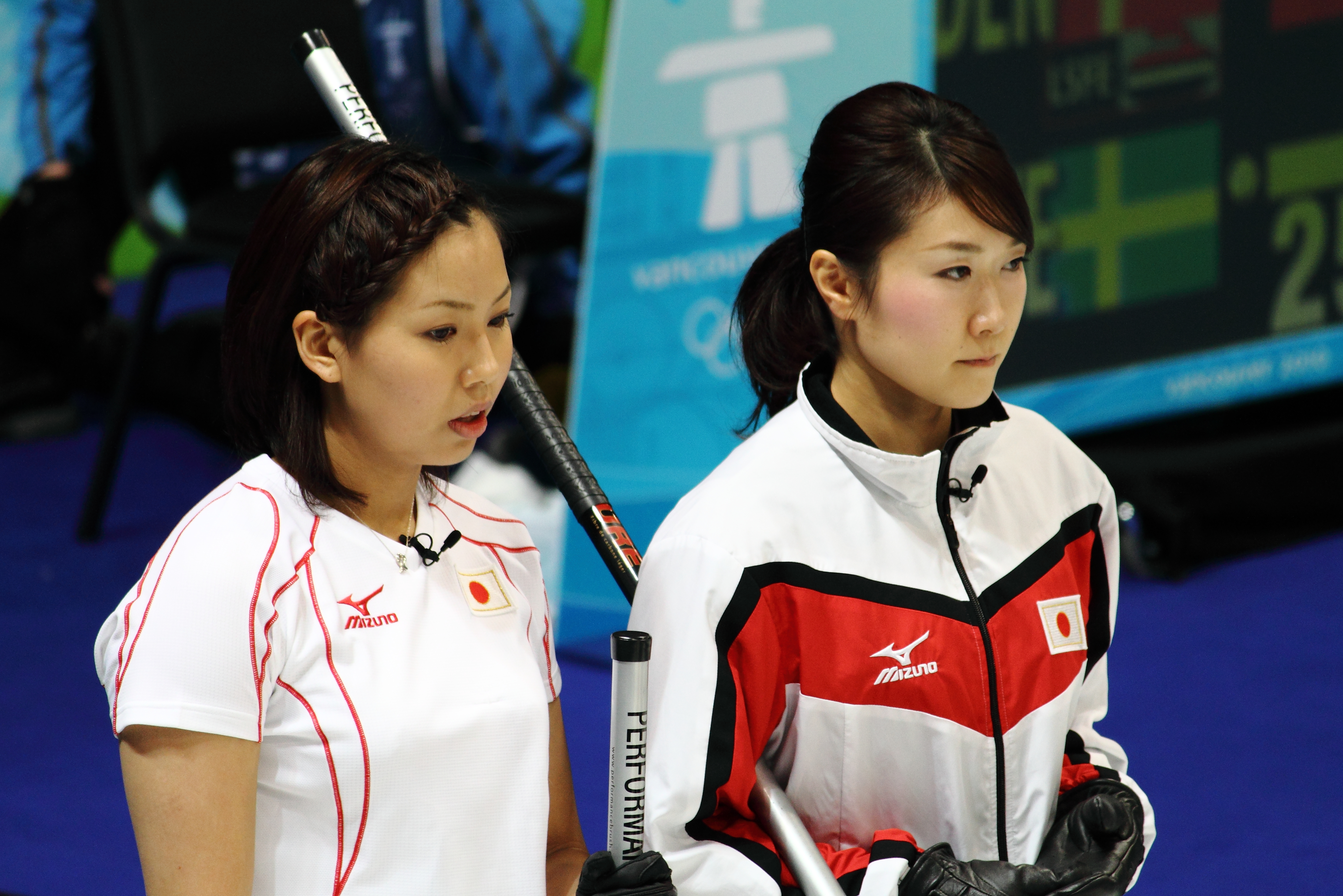 Anna Ohmiya (left) and Moe Meguro (right); 2010 Vancouver Olympic Games - Women's Curling - Preliminary from Vancouver Olympic Centre